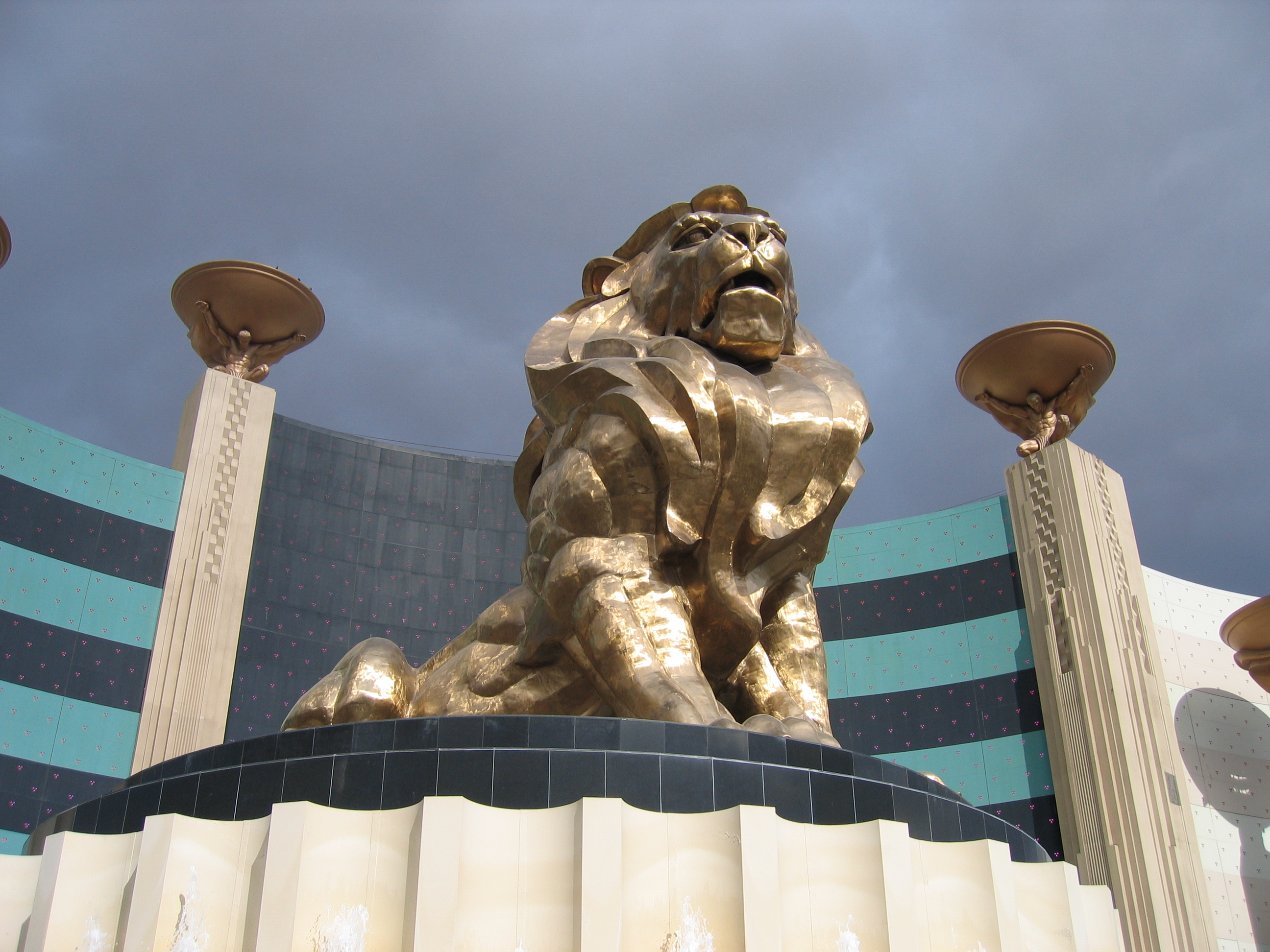 Photo of the MGM Grand lion in Las Vegas.